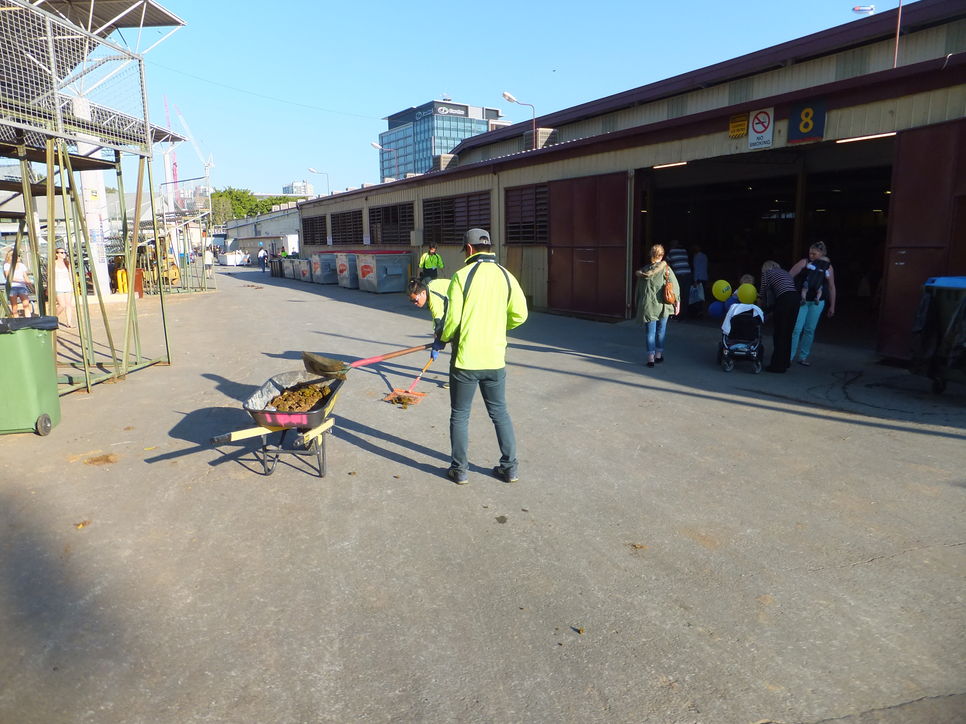 Workers colleting manure at 2013 Ekka / Royal Queensland Show